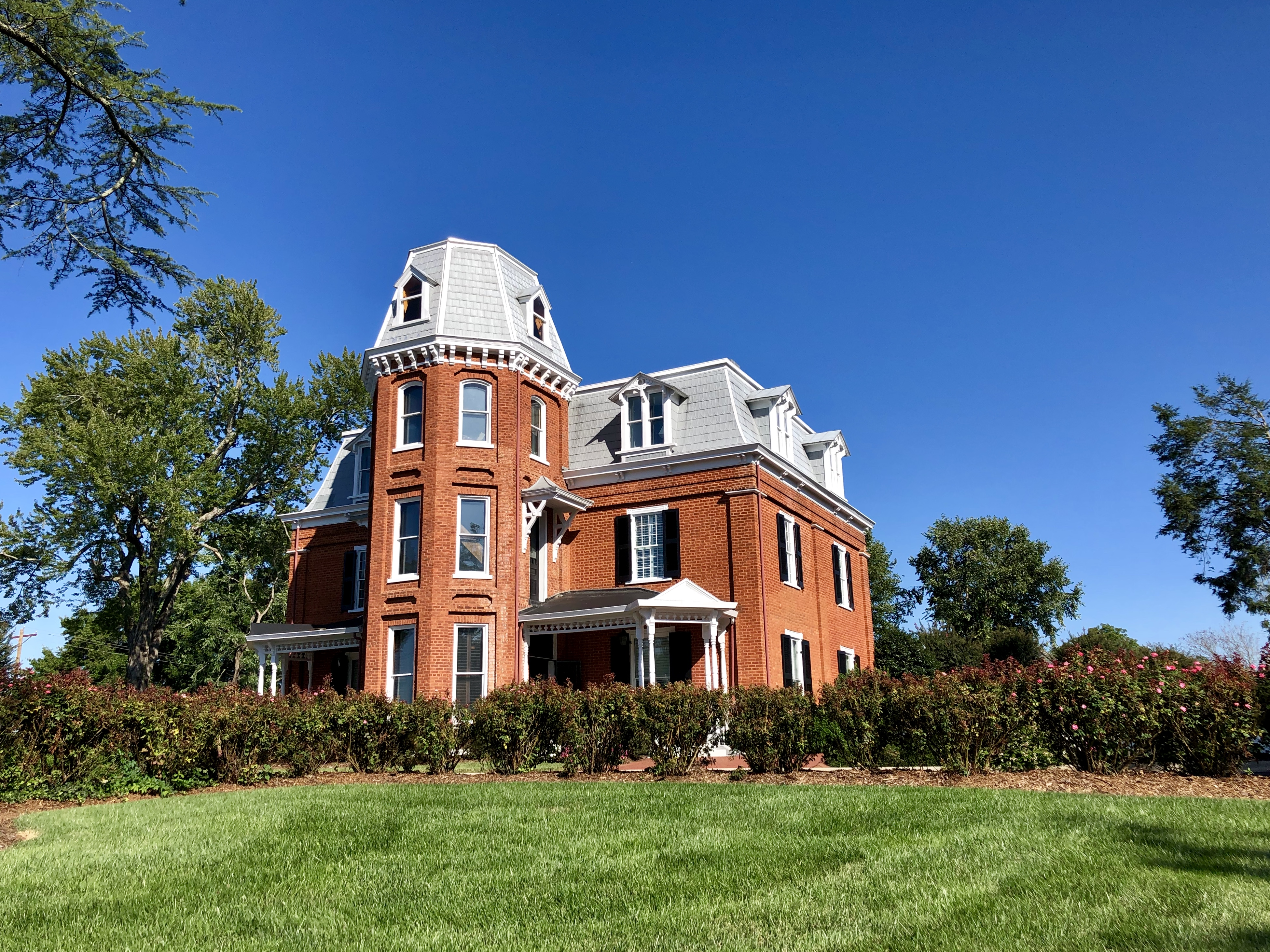 This is the Tate House, also known as The Cedars, a mansion constructed around 1850 in Morganton, North Carolina. The house was substantially modified in 1868 into the present Second Empire-style structure. It was listed on the National Register of Historic Places in 1973.